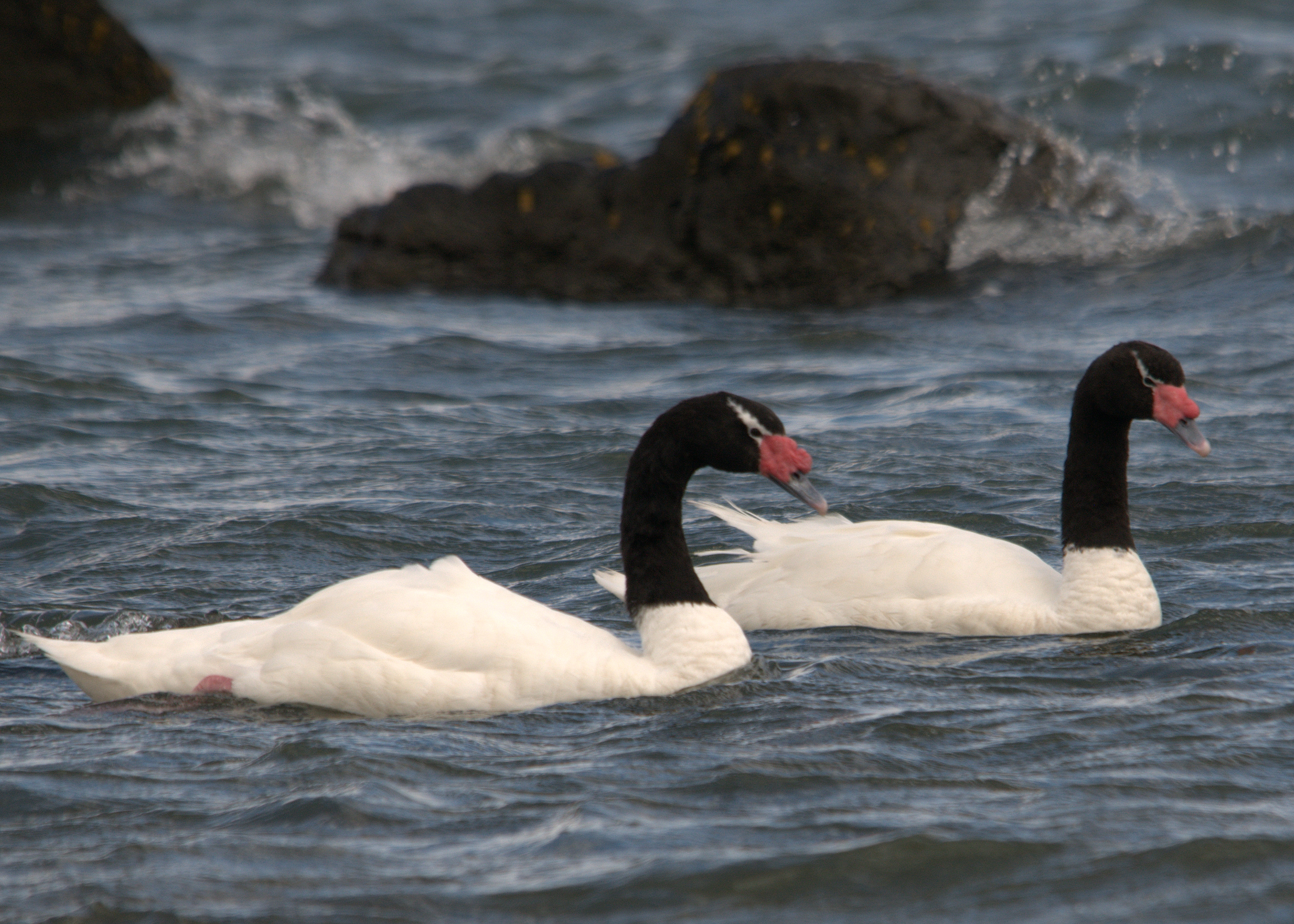 Black-necked Swans in Puerto Natales, Patagonia, Chile.